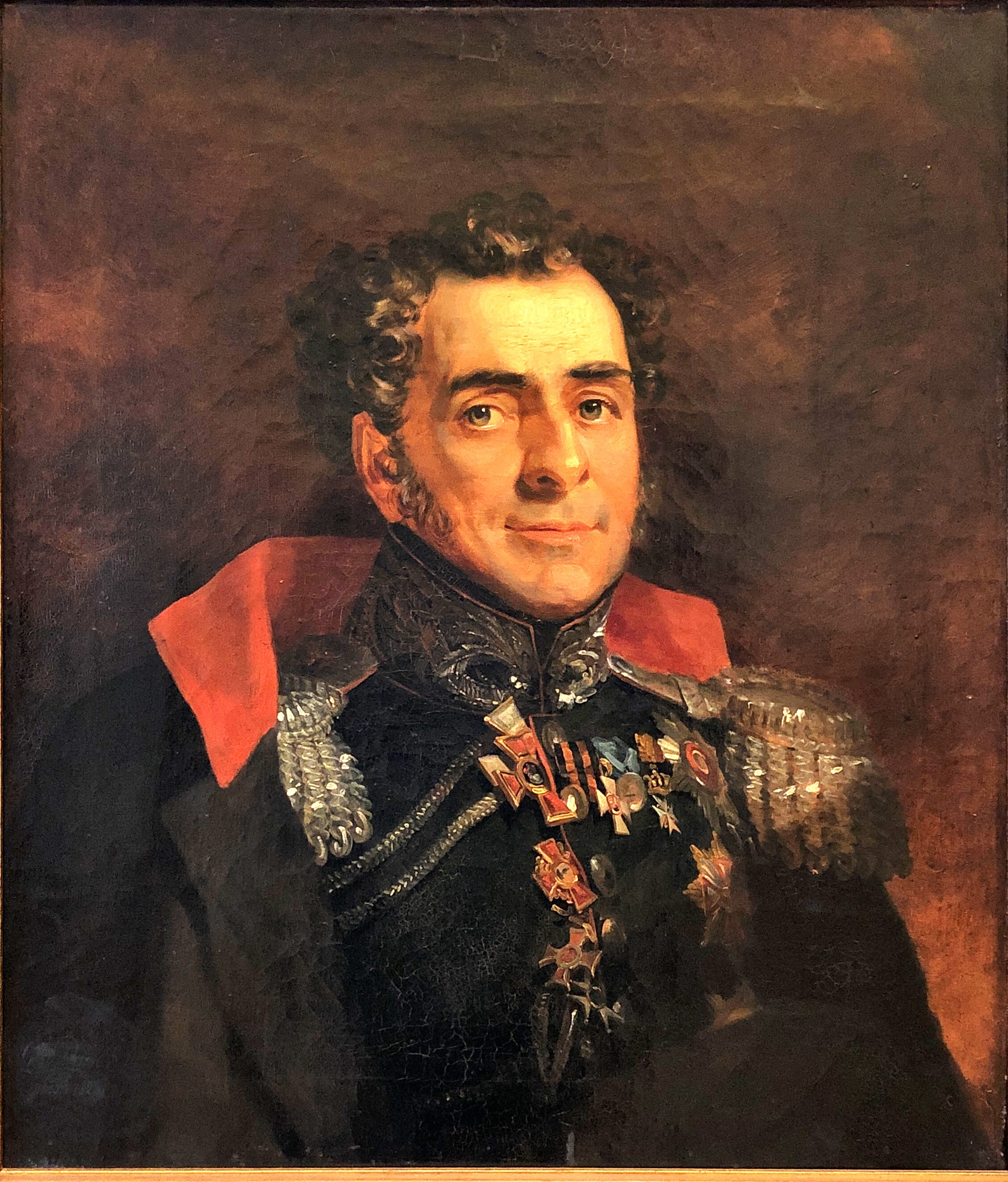 Oil painting of Dmitri Dmitrievitch Kuruta, by Georg Dawe (1781-1829).